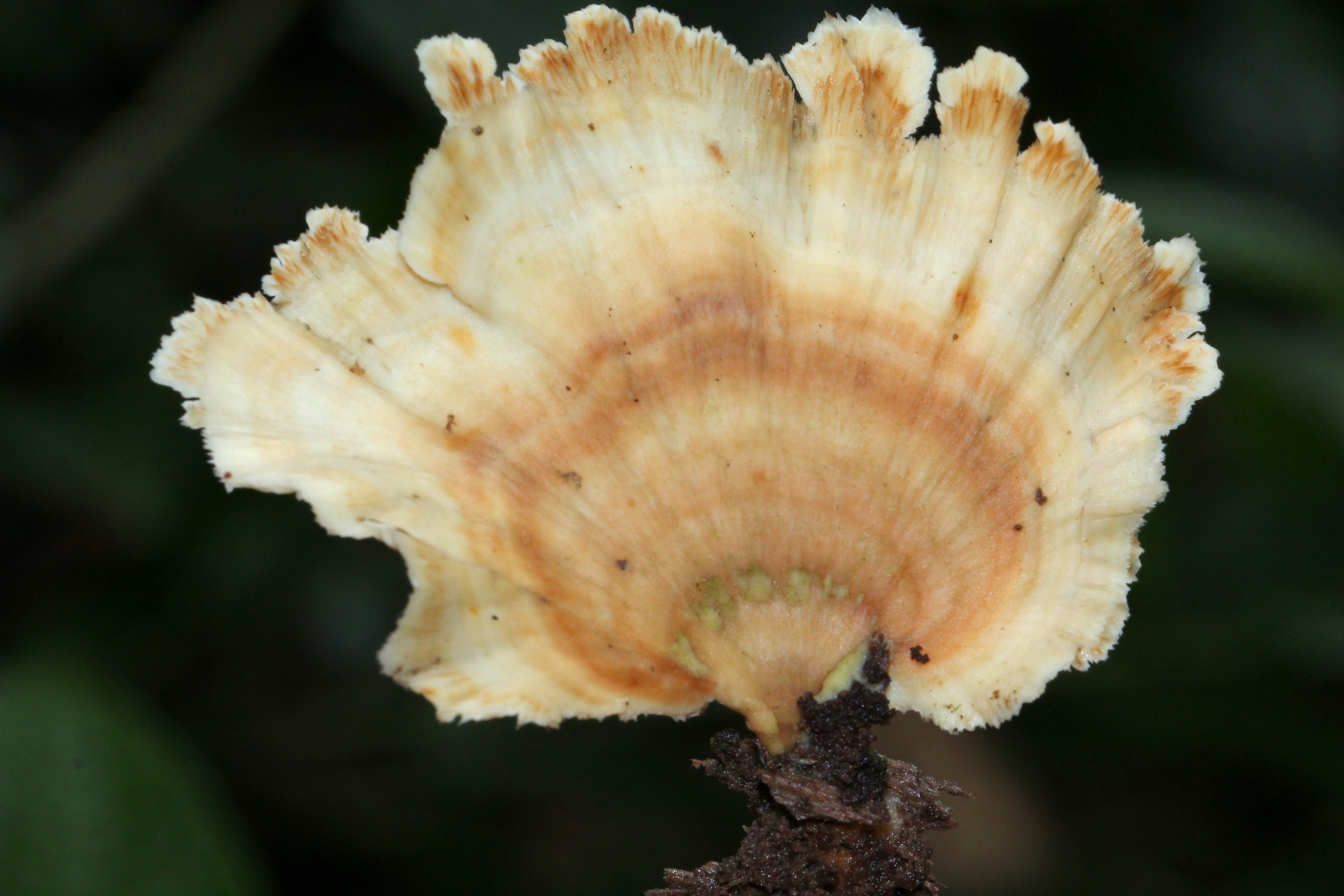 The polypore fungus Flabellophora